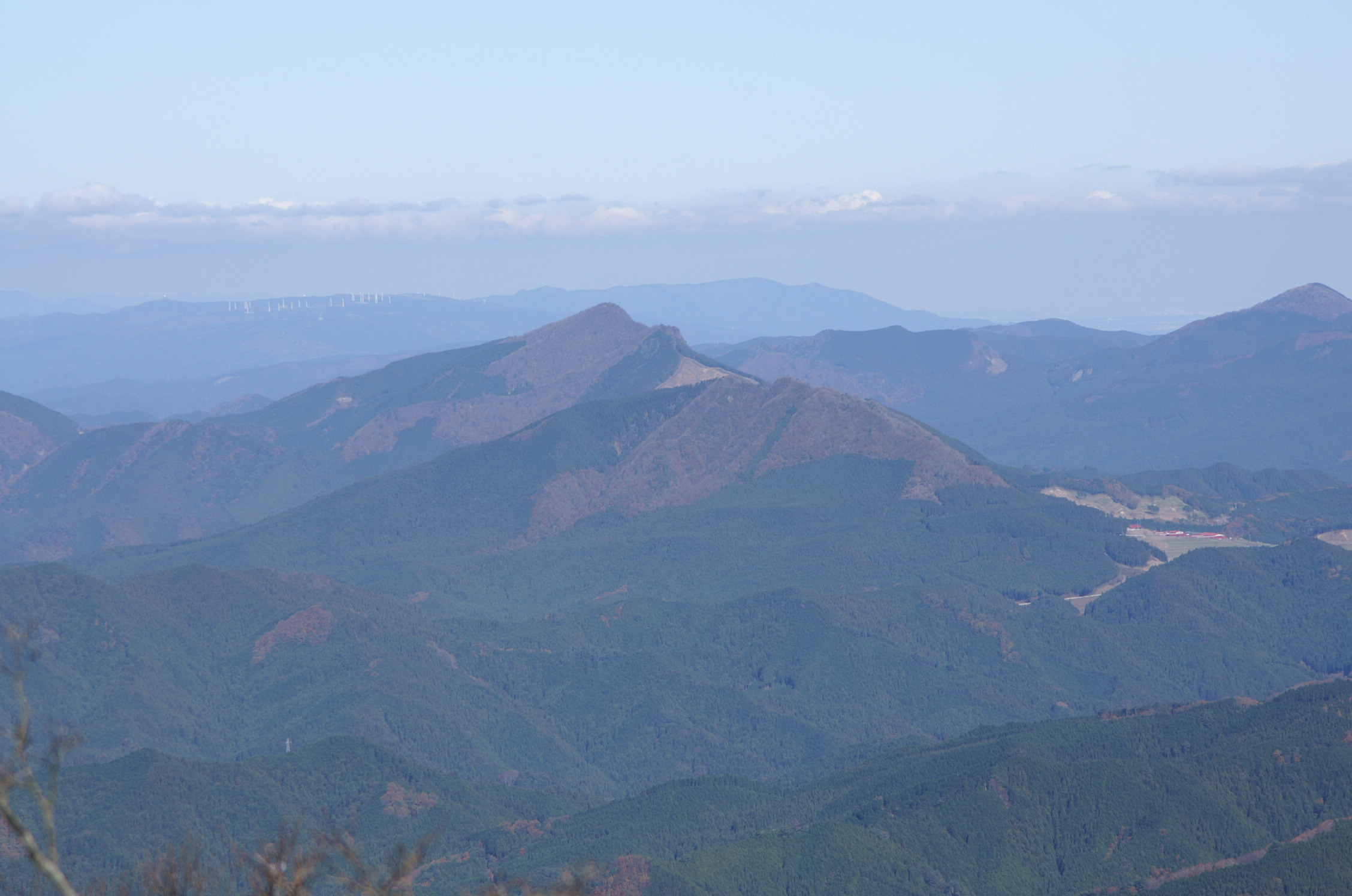 Looking the NNE from Mount Takami. Mount Kuroso in the center.